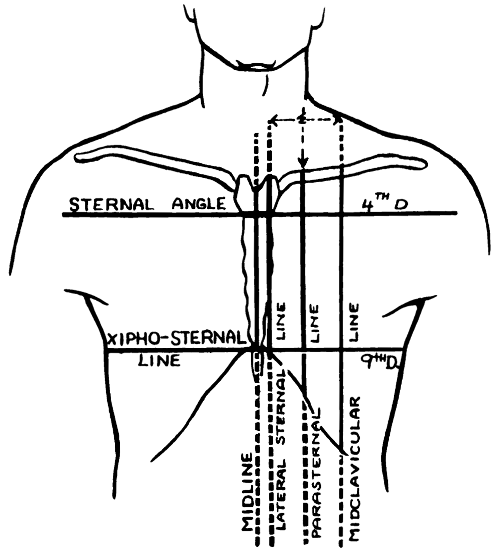 Anatomical image